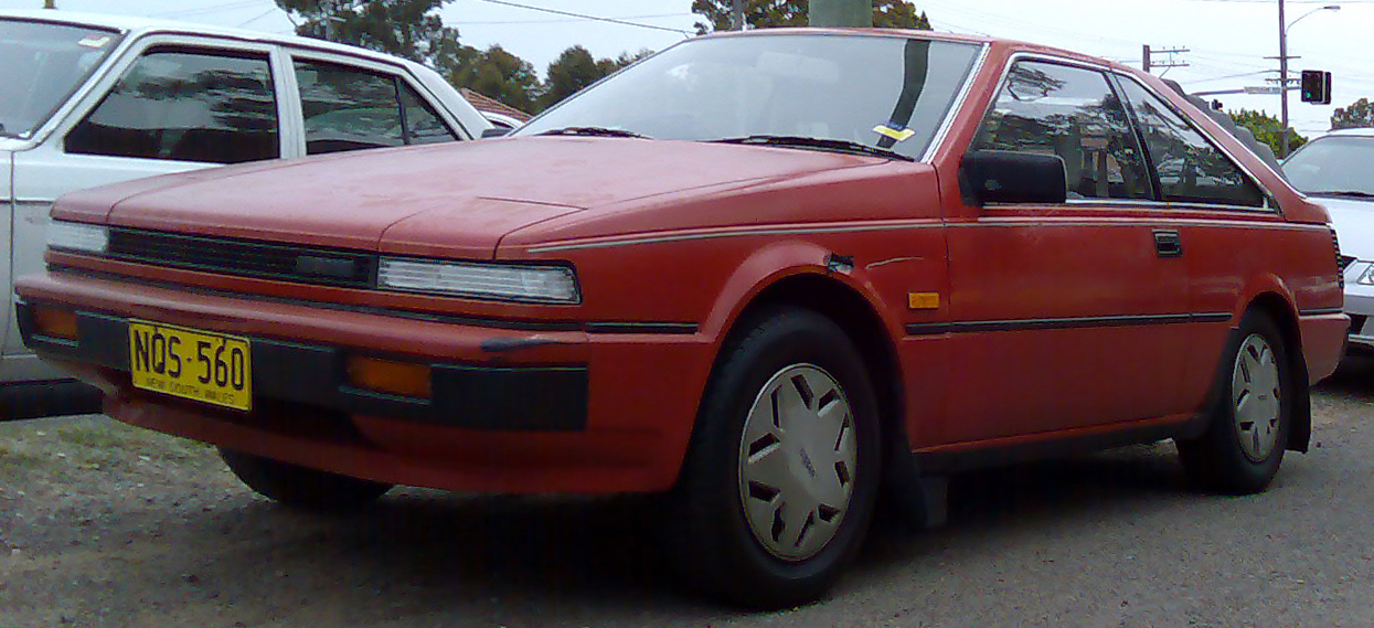 1985 Nissan Gazelle (S12) GL hatchback. Photographed in Gymea, New South Wales, Australia.